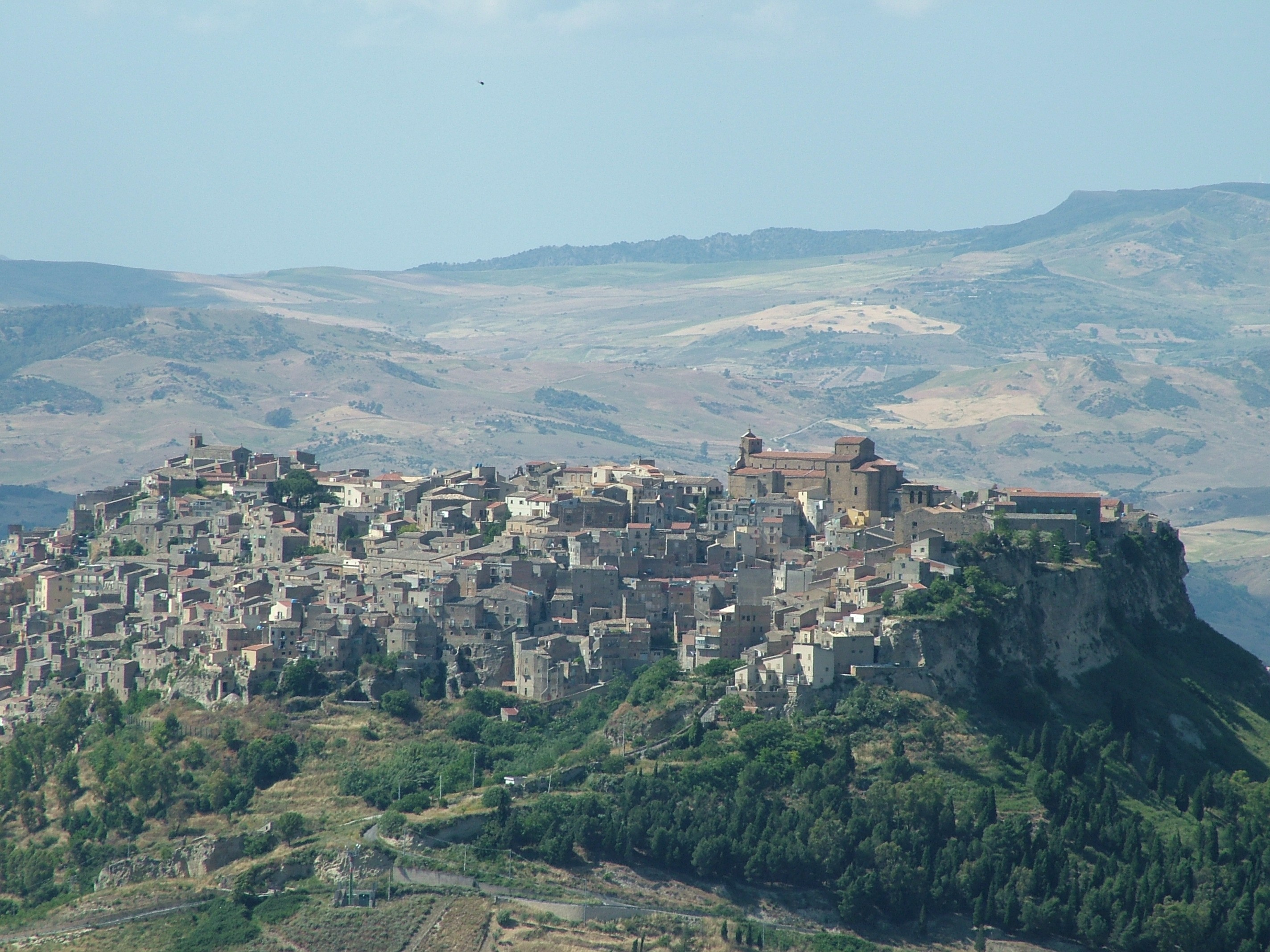 Calascibetta, Blick von Enna (view from Enna)